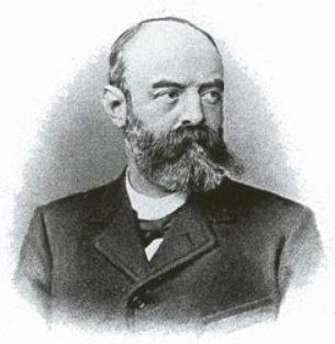 Johannes Dürrstein (1845–1901), Clockmaker, Founder of Uhrenfabrik UNION Glashütte.